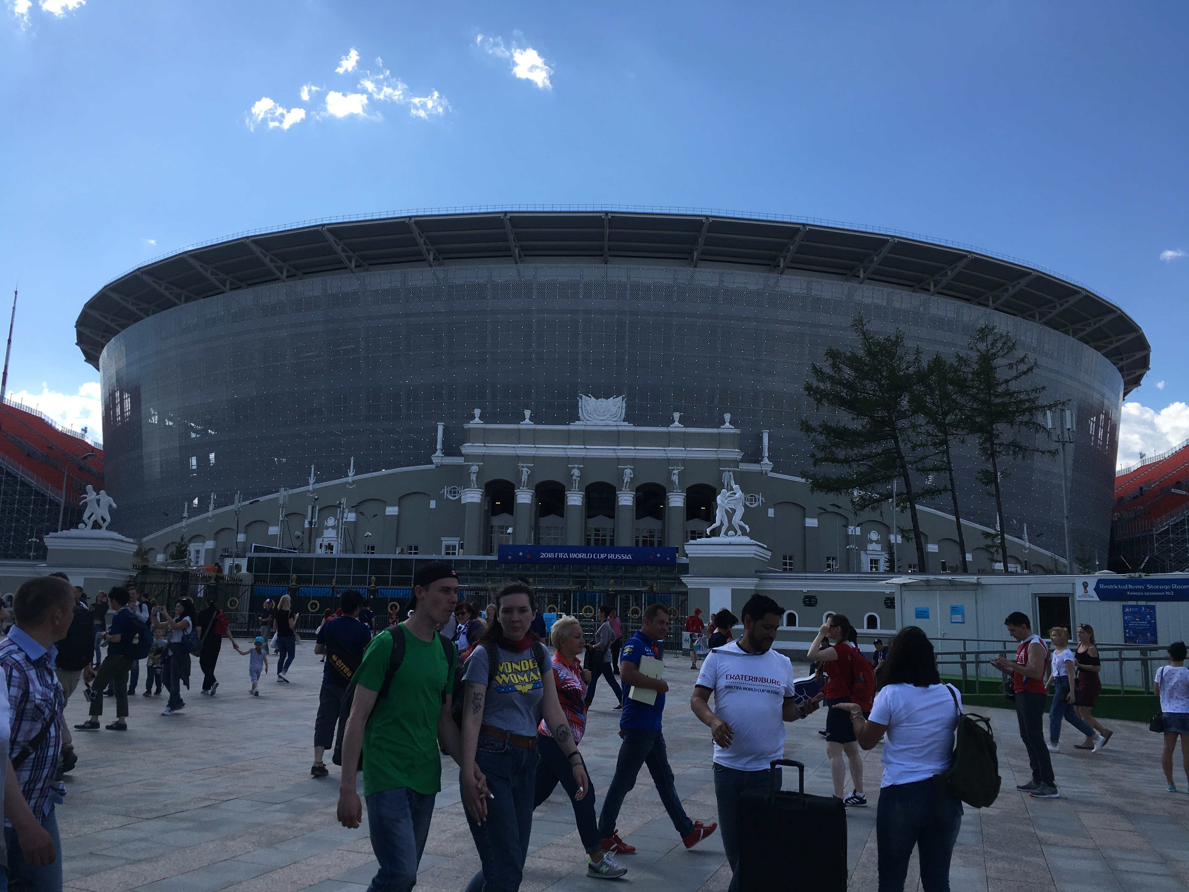 Japan-Senegal in Yekaterinburg (FIFA World Cup 2018)